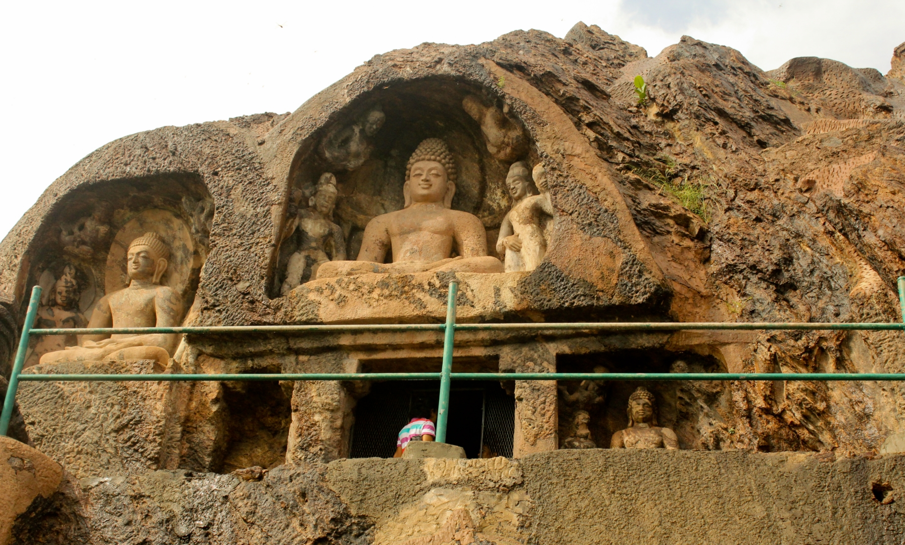 Buddhist rock-cut stupas, Dagabas and caves and the ruins of a structural Chaitya with its outbuilding and other Ancient remains on twoadjoining hills known as Bojjanna Konda.